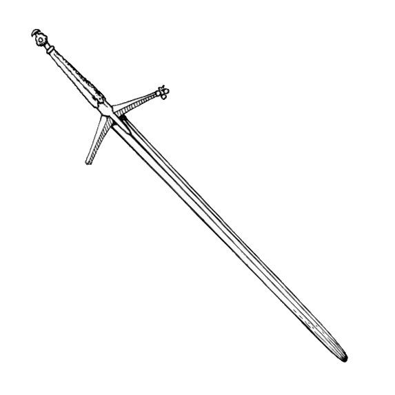 line art drawing of a claymore.